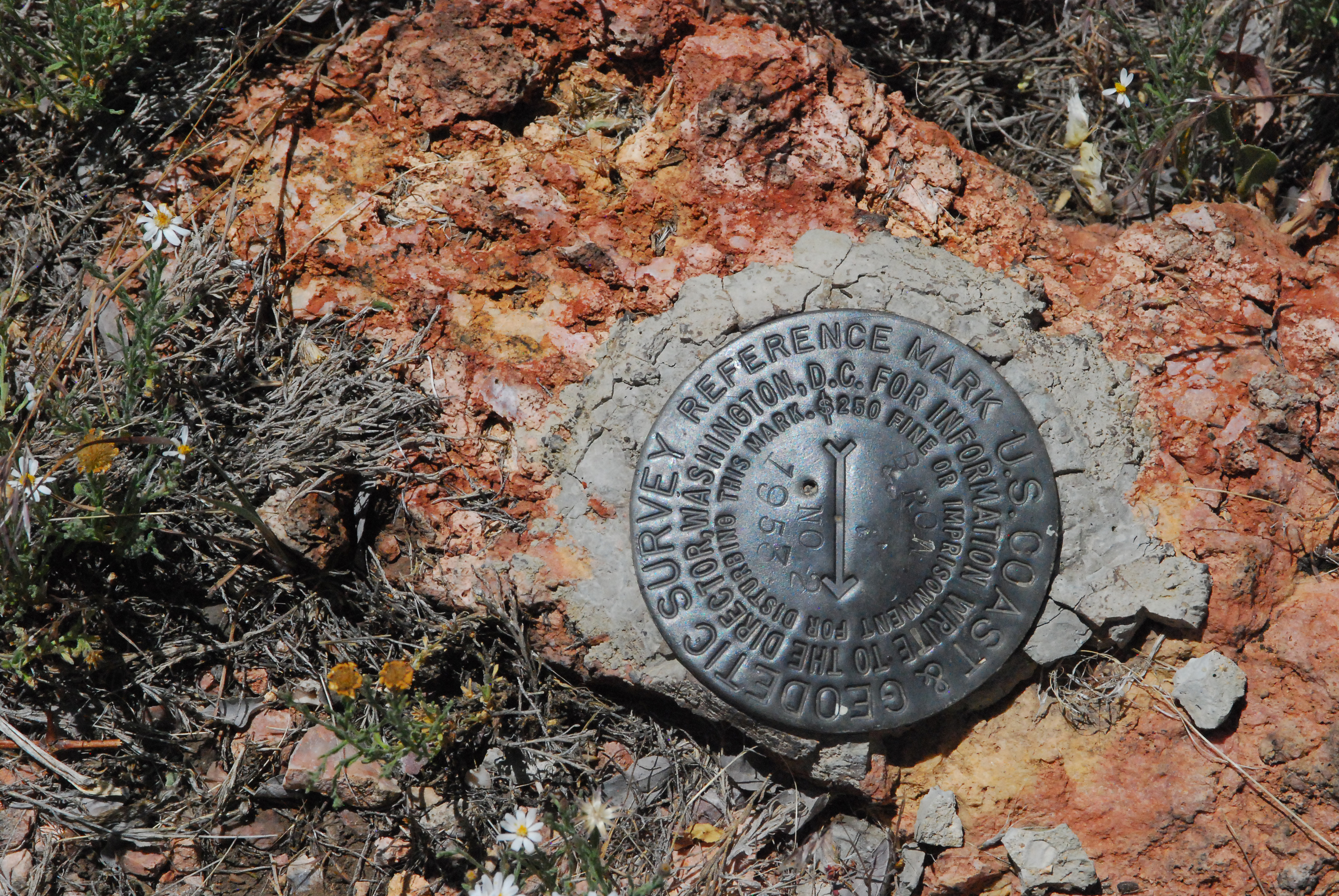 This photograph is of a Department of Interior Coast and Geodetic survey marker along the trail to Brow Monument. It is the modern marker located approximately 300 feet from the historical marker cited in the article Brow Monument and Brow Monument Trail